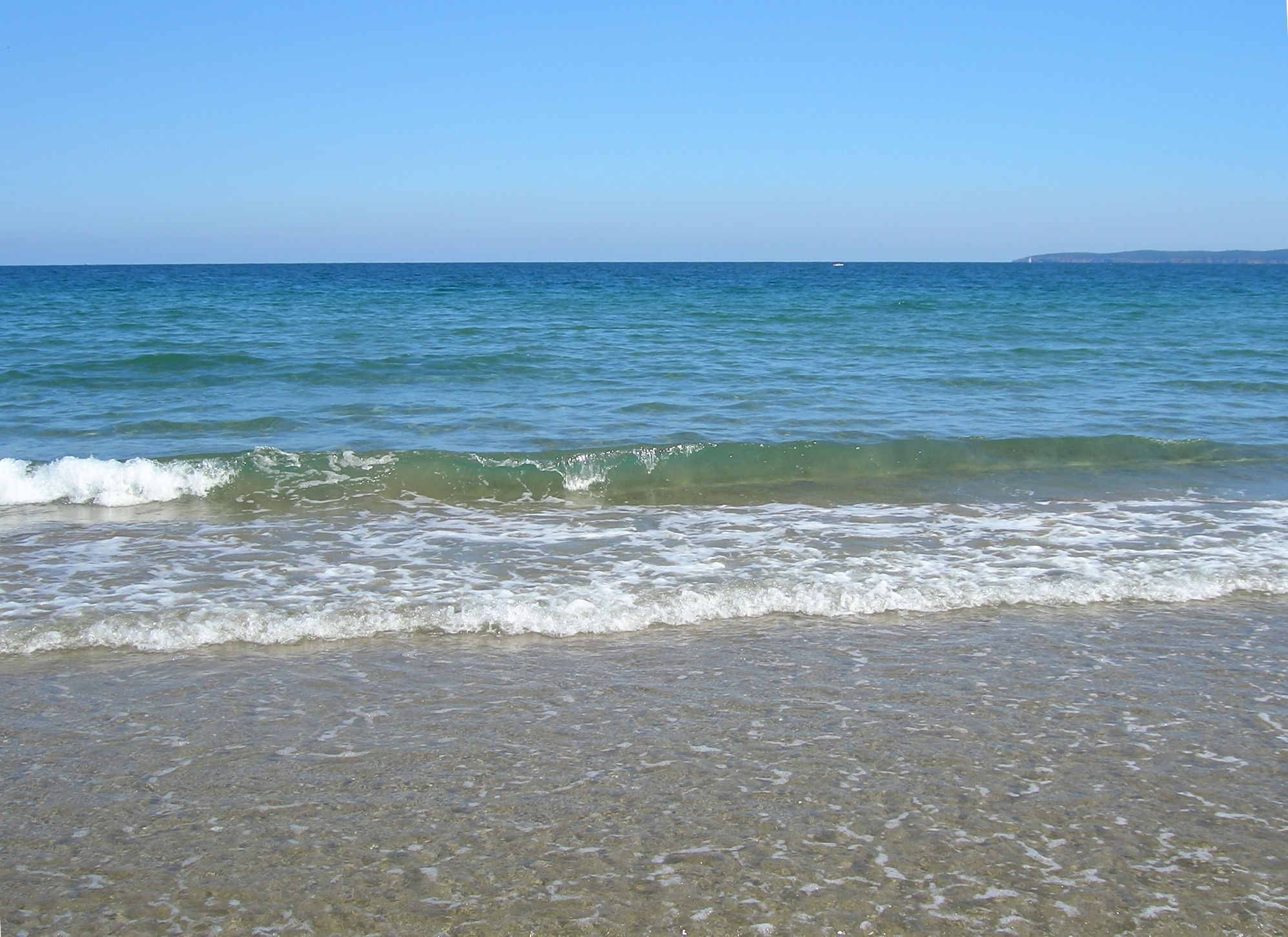 Black sea near Kavatsite